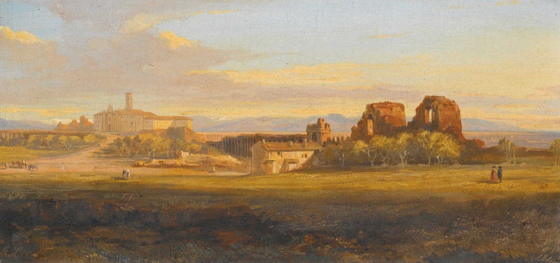 A View of the Roman Campagna, a Villa and Aqueduct in the Distance by Edward Lear, 1841, oil on canvas, 19 by 39.7 cm.; 7 1/2 by 15 5/8 in.